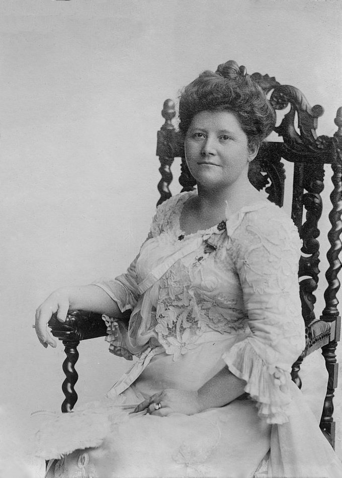 Bain News Service,, publisher. Cornelia Cole Fairbanks [between ca. 1910 and ca. 1915] 1 negative : glass ; 5 x 7 in. or smaller. Notes: Title from unverified data provided by the Bain News Service on the negatives or caption cards. Forms part of: George Grantham Bain Collection (Library of Congress). Format: Glass negatives. Repository: Library of Congress, Prints and Photographs Division, Washington, D.C. 20540 USA, General information about the Bain Collection is available at Persistent URL: Call Number: LC-B2- 2873-13